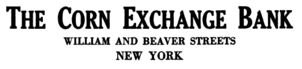 Letterhead / logo of the Corn Exchange Bank of New York